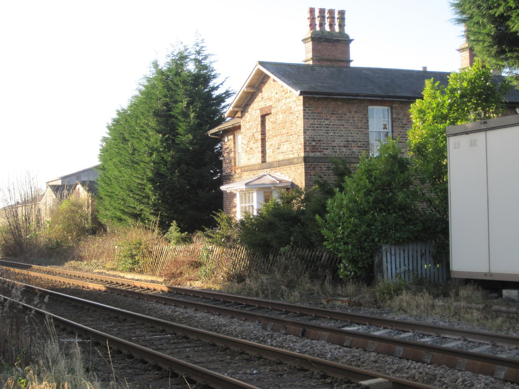 Haxby railway station (site), YorkshireOpened in 1845 by the York & North Midland Railway on its line from Scarborough to York, the station closed to passengers in 1930. View south west towards York.